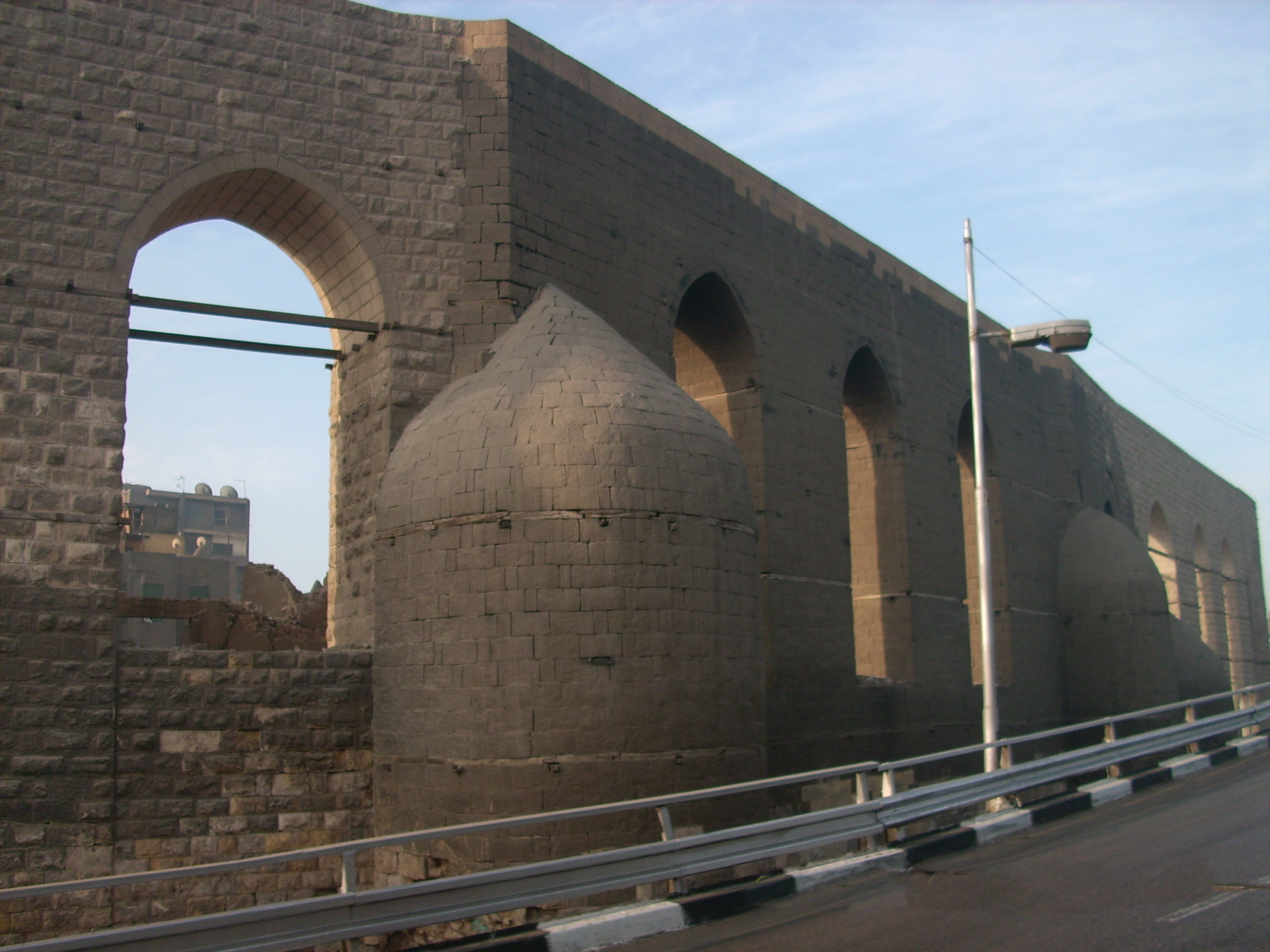 Citadel Aqueduct Cairo